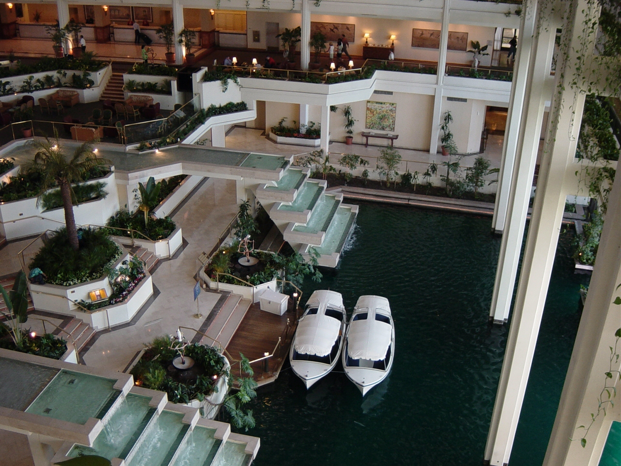 The foyer at JW Marriott's Desert Springs Resort and Spa, November 2003.